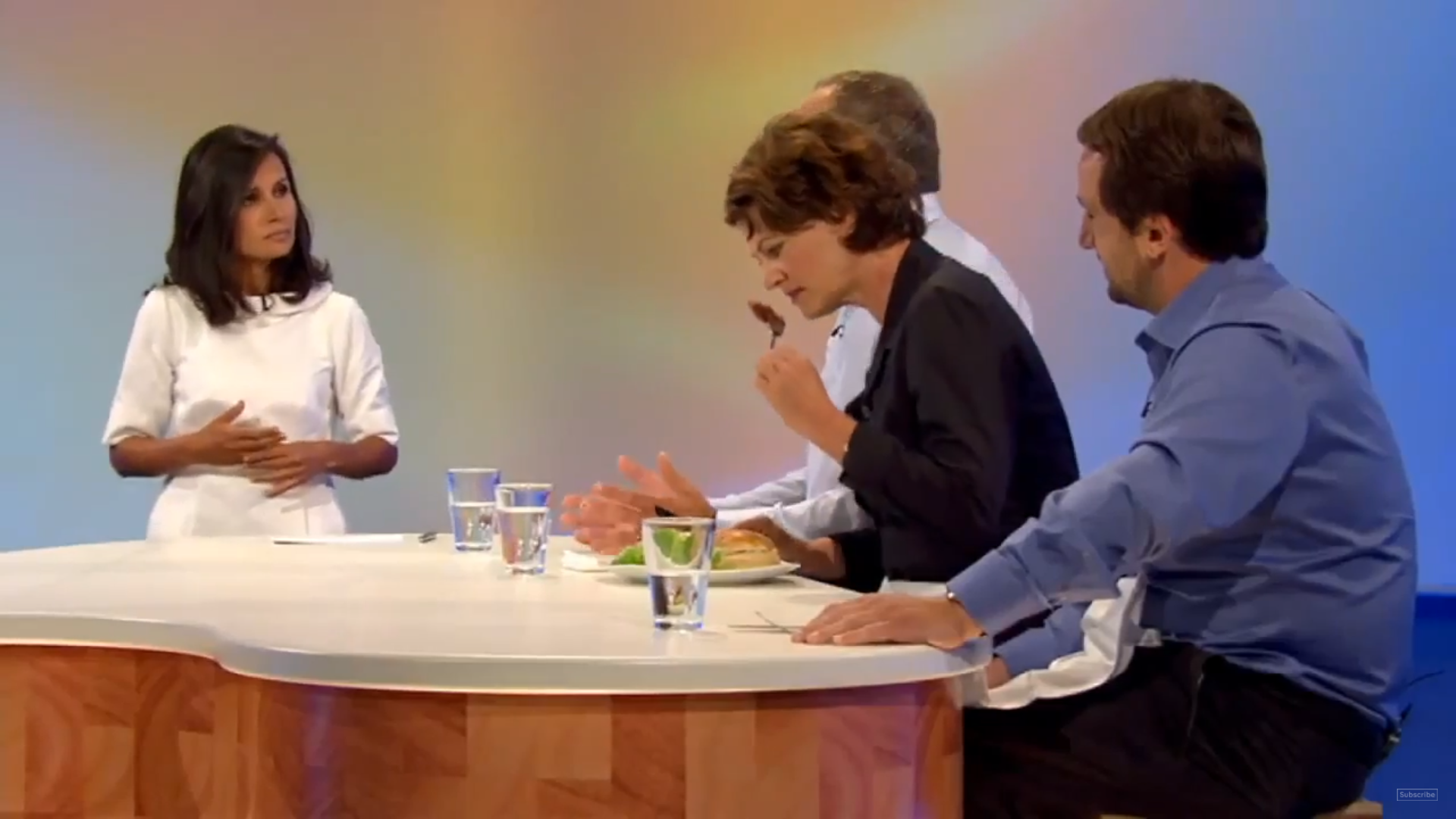 The moment when Austrian nutritional scientist Hanni Rützler tasted the world's first cultured hamburger in London on 5 August 2013. The cultured meat product was developed by a team of scientists from Maastricht University led by Mark Post at a cost of €250,000.